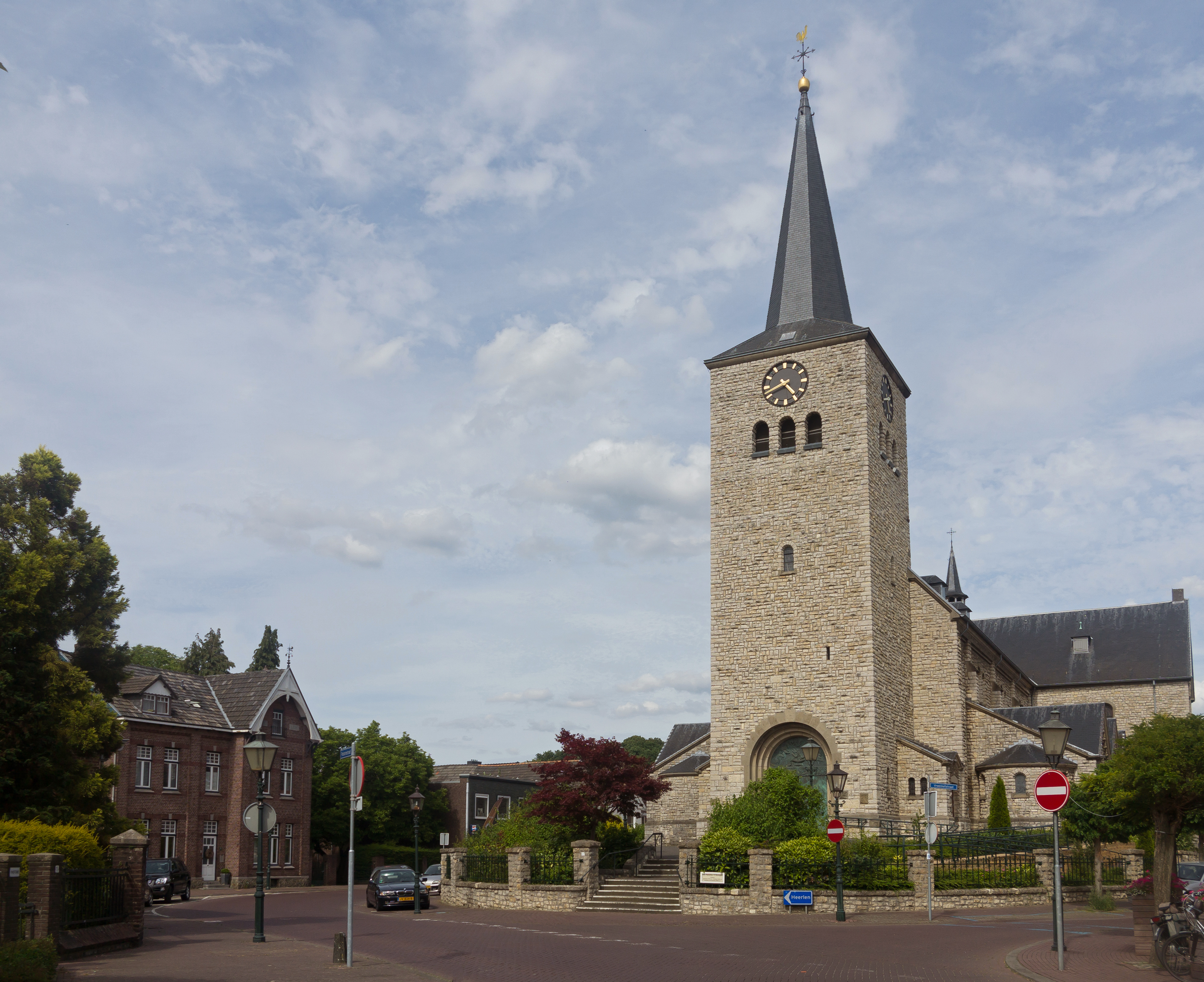 Simpelveld, church: de Sint-Remigiuskerk